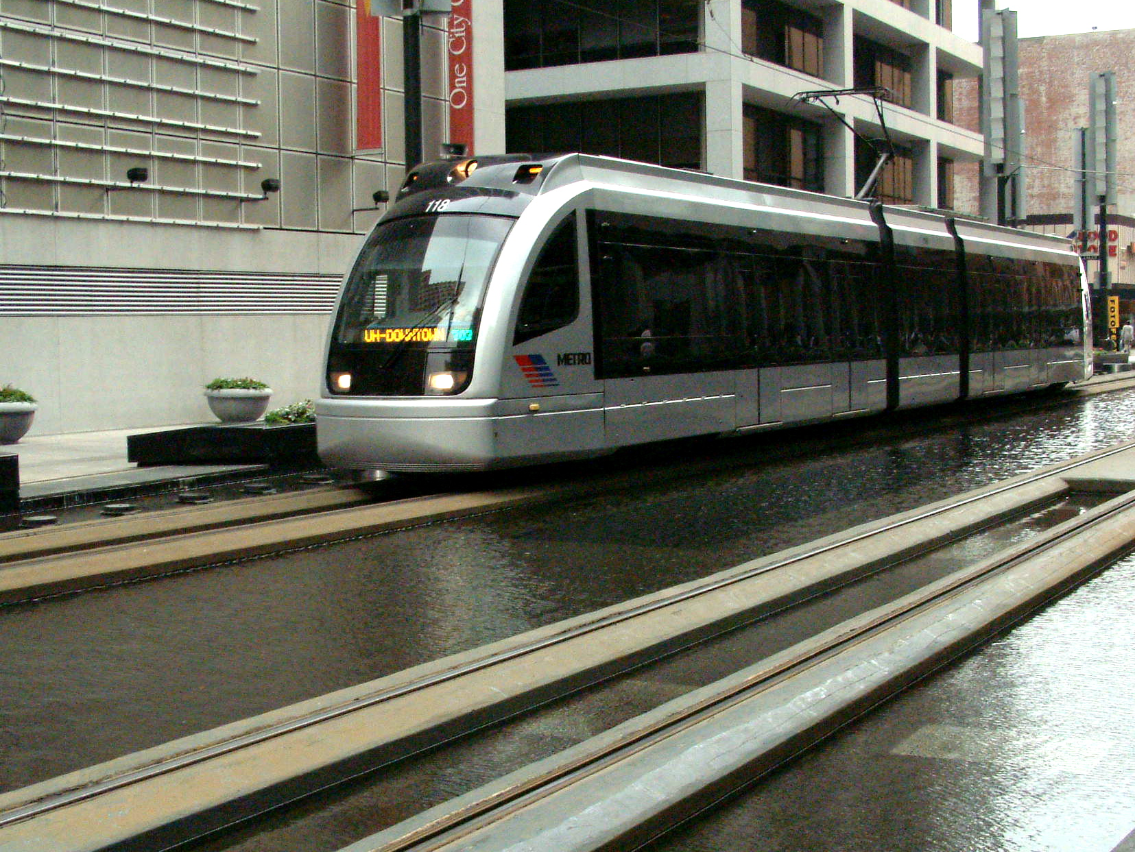 Houston tram system